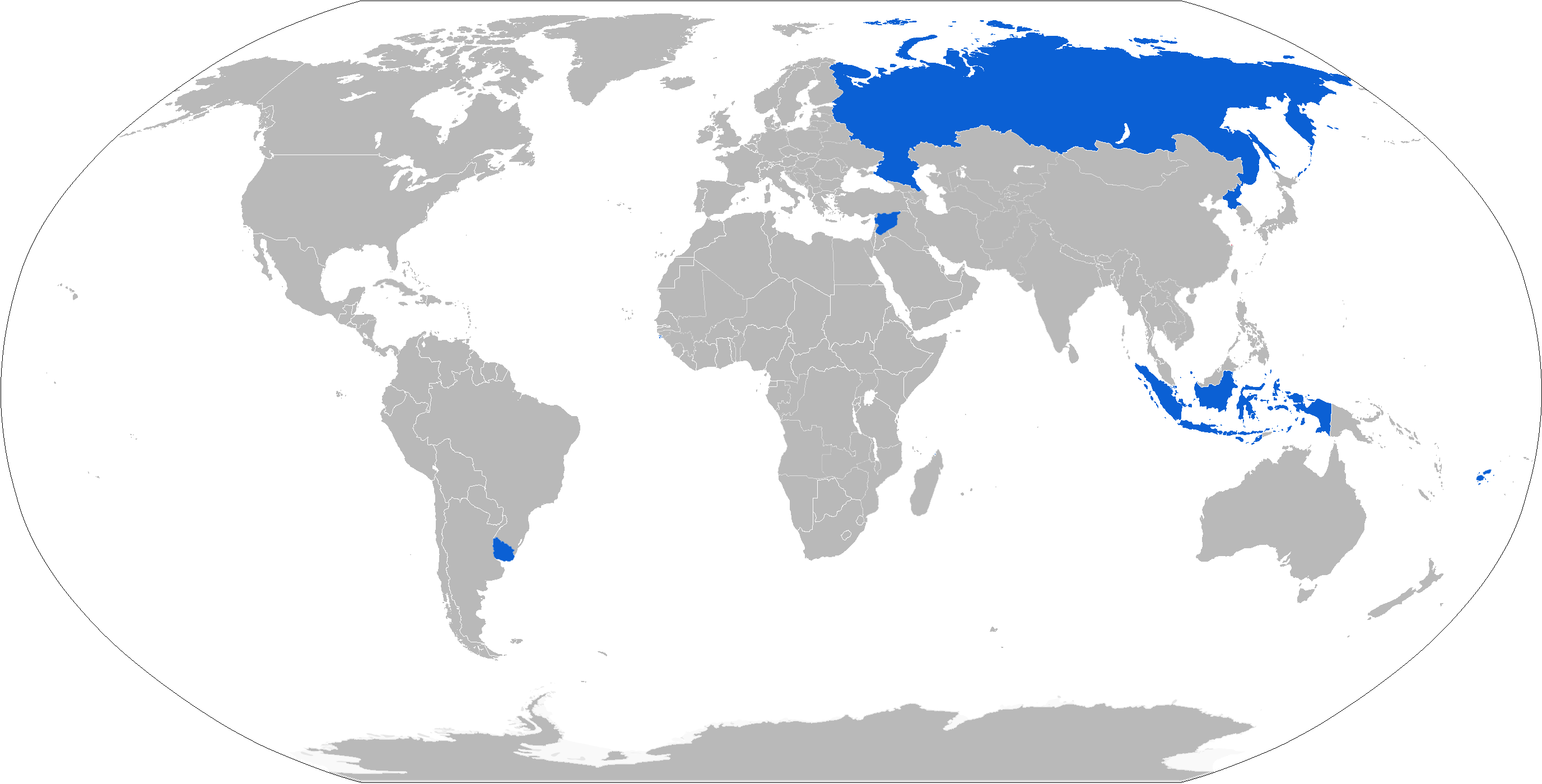 Map of user countries of the AK-101 rifle.